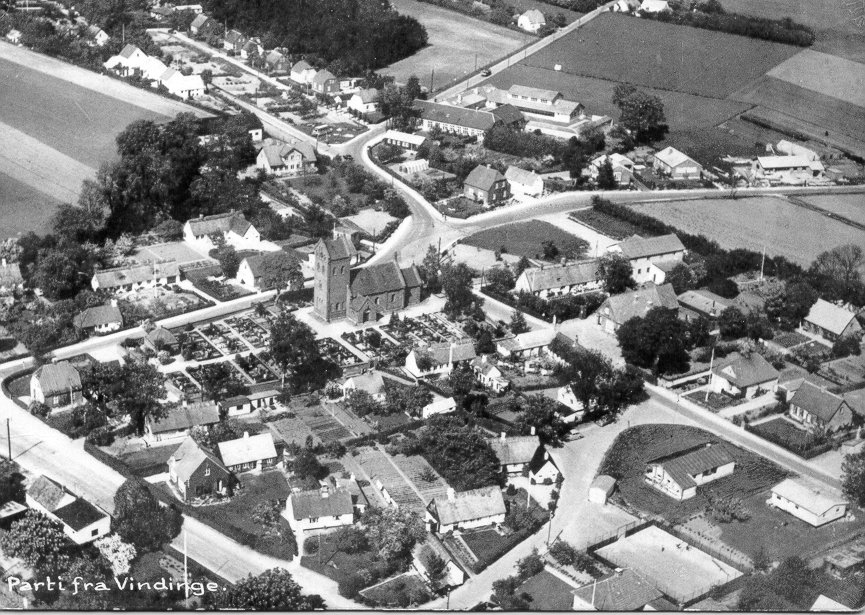 Aerial of the village Vindinge Near Roskilde, Denmark